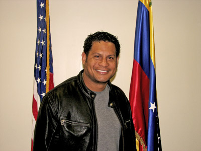 Baseball player Bobby Abreu.